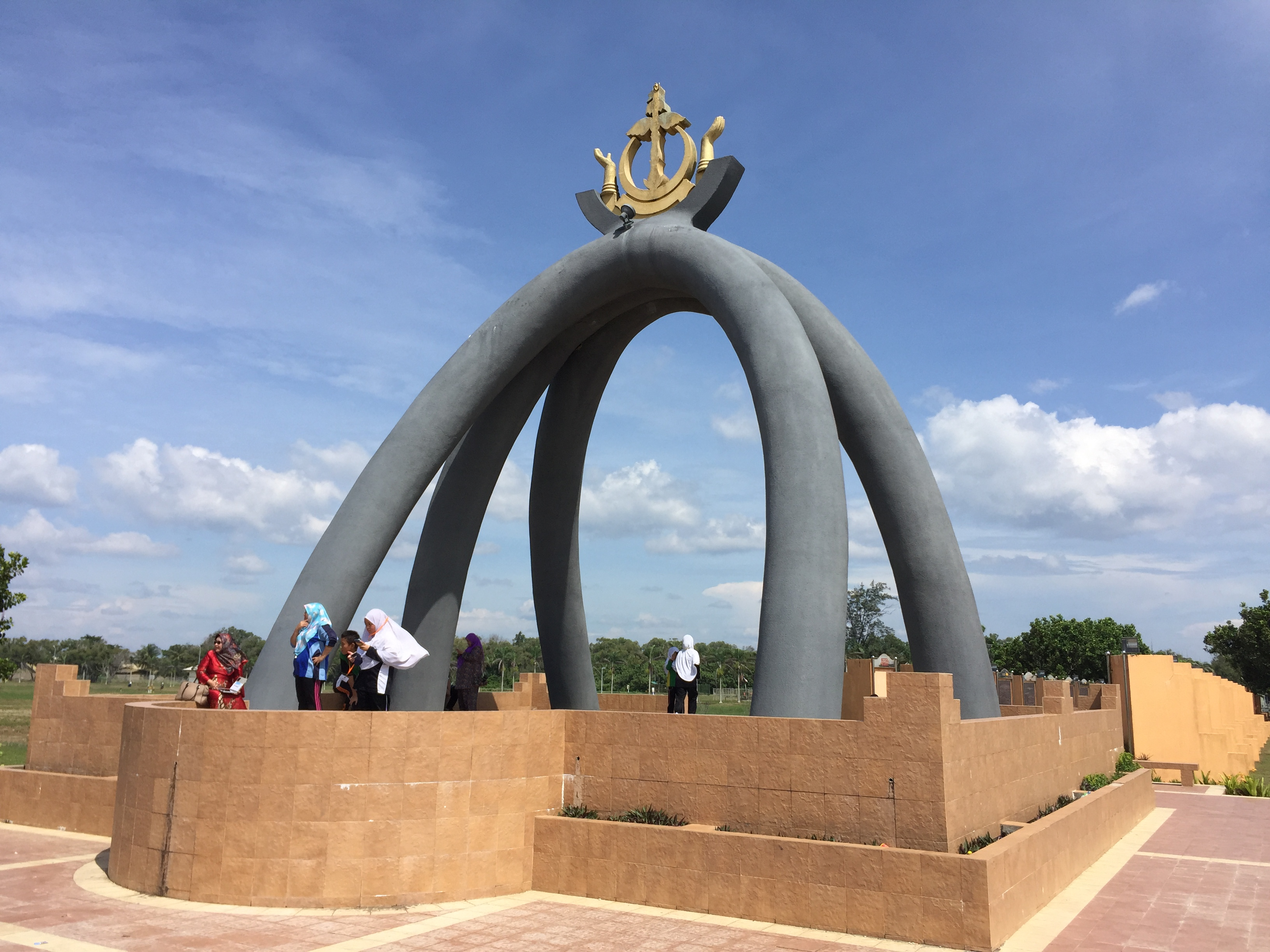 One Billionth Barrel Monument, Seria, Belait